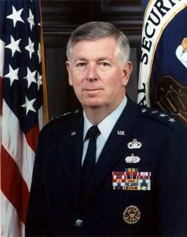 Kenneth Minihan, former director of the NSA.